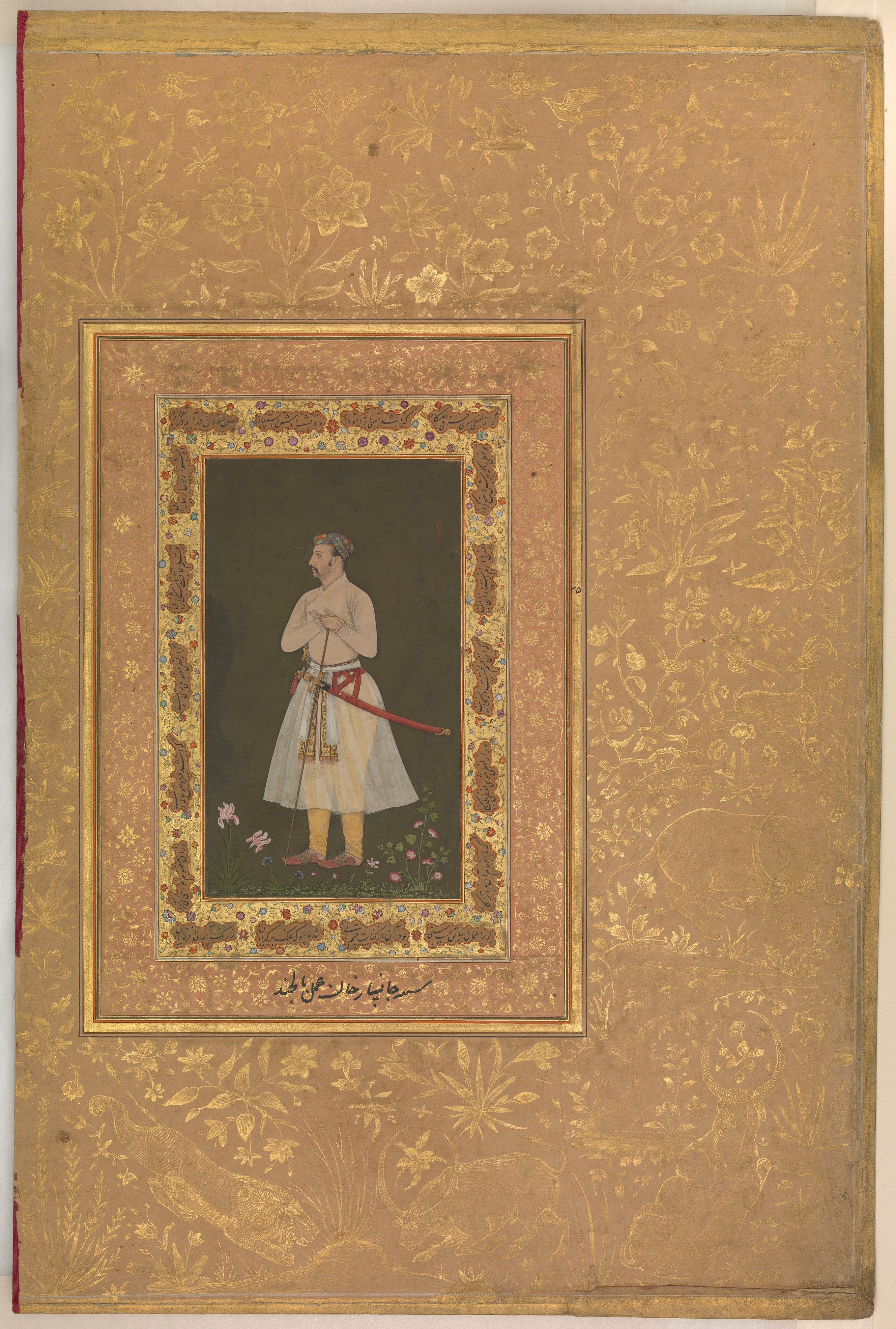 "Portrait of Jahangir Beg, Jansipar Khan", Folio from the Shah Jahan Album Painting by Balchand (Indian, 1595–ca. 1650) Calligrapher: Mir 'Ali Haravi (d. ca. 1550) Object Name: Album leaf Reign: Jahangir (1605–27), verso Date: verso: ca. 1627; recto: ca. 1530–50 Geography: India Medium: Ink, opaque watercolor, and gold on paper Dimensions: H. 15 3/8 in. (39 cm) W. 10 3/8 in. (26.3 cm) Classification: Codices Credit Line: Purchase, Rogers Fund and The Kevorkian Foundation Gift, 1955 Accession Number: 55.121.10.37 This artwork is not on display